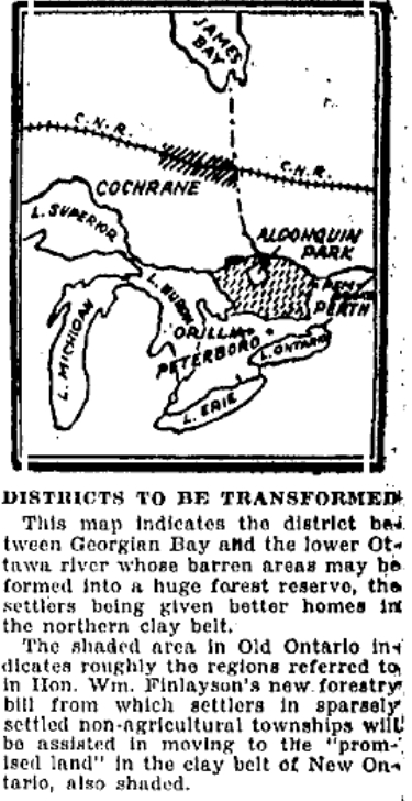 A map and accompanying text showing lands affected in 1927 Ontario initiative for migrating farmers from barren lands to the Clay Belt of Northern Ontario